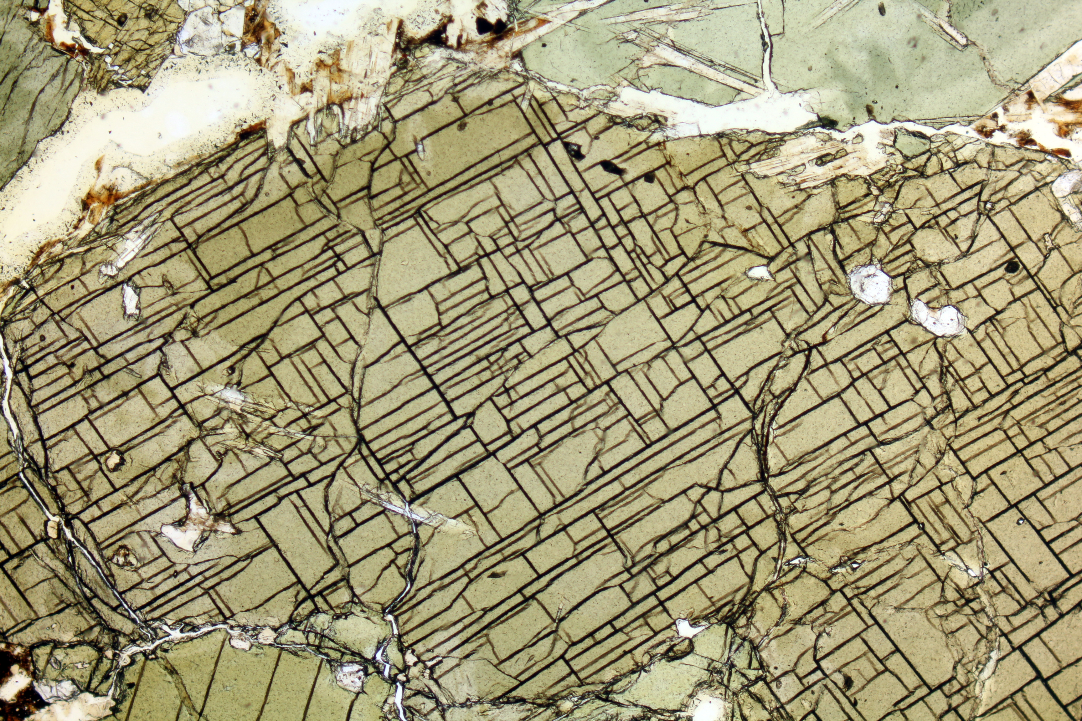 Basal section of green pyroxen (with 90° cleavage ) in a Pyroxenite Xenolith from Vulsini volcano, Lazion region, Italy. Plane polarized light image, magnification 10x (Field of view = 2mm)